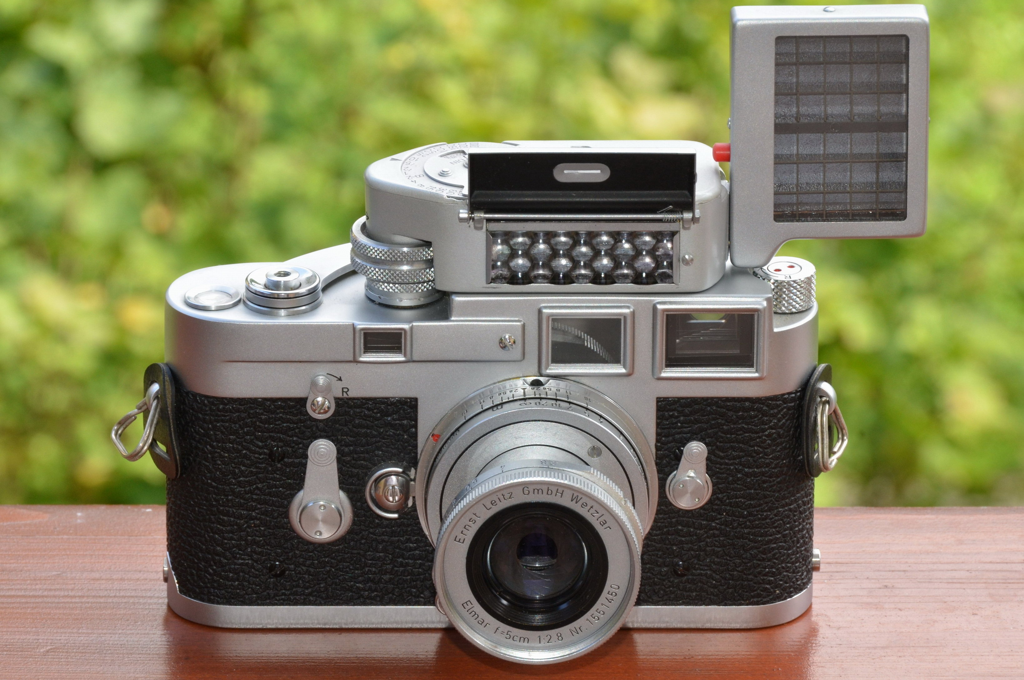 Leica M3 chrome Singlestroke with Leica-Meter M und Elmar f=5cm 2,8; own work